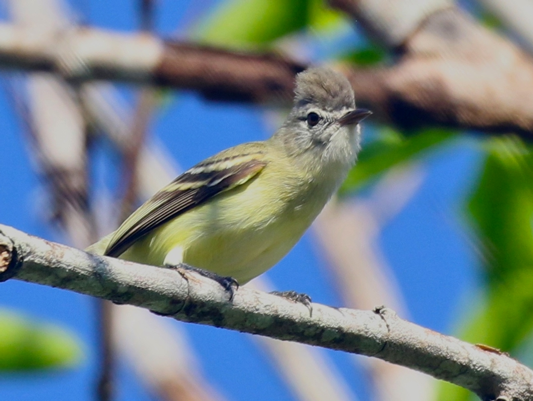 Anton, Panama